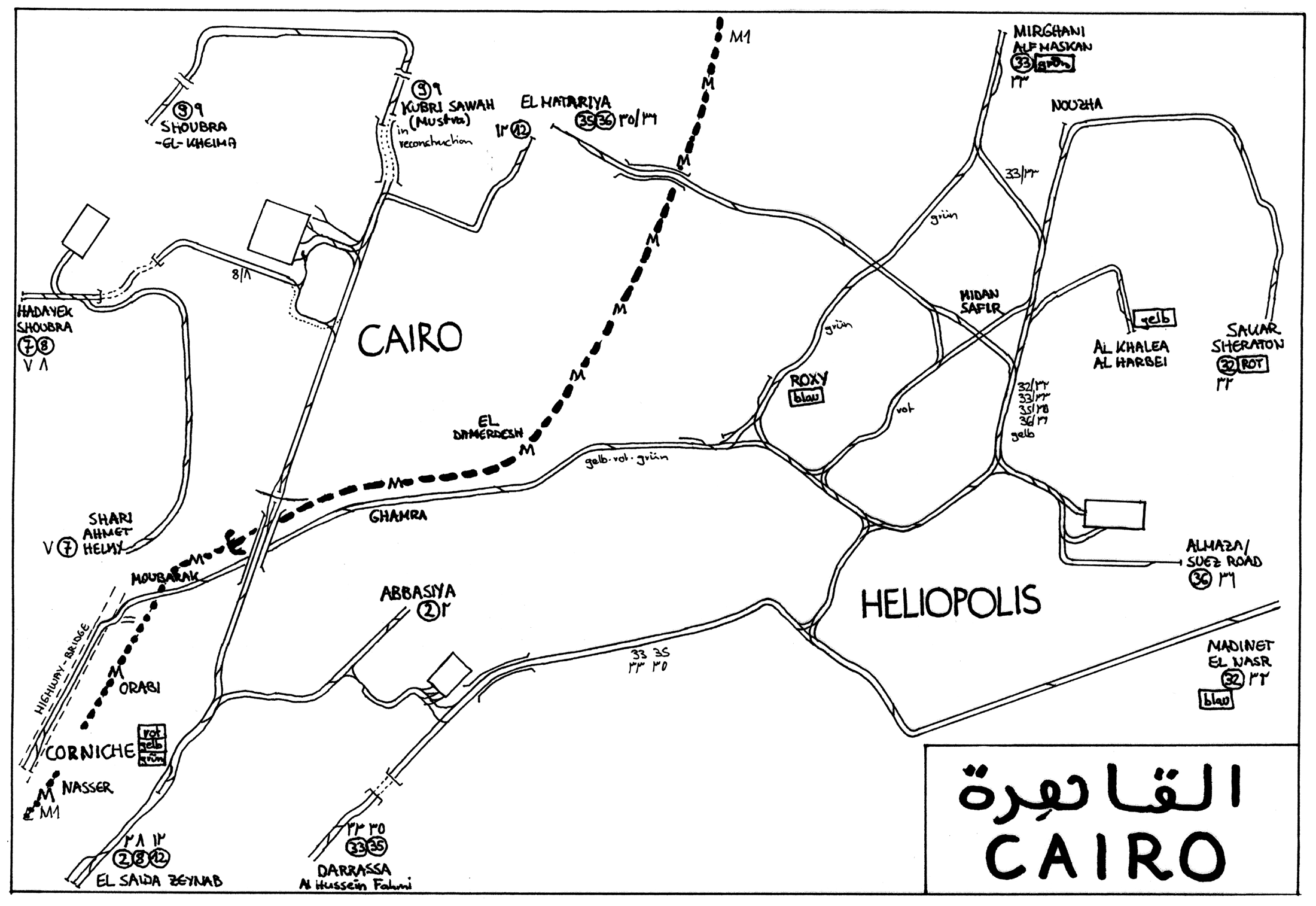 Tramway track map of Cairo, 1996